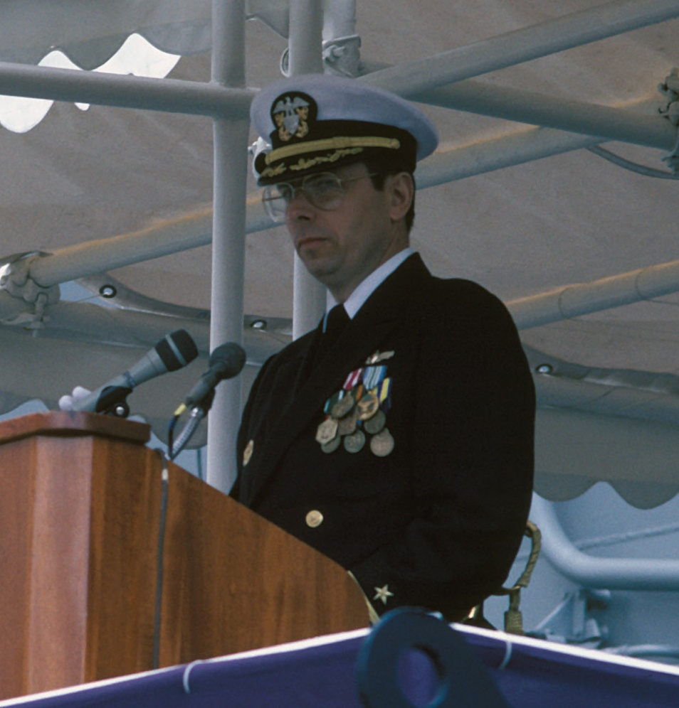 Commander (CDR) Paul X. Rinn, commanding officer, speaks during the commissioning of the guided missile frigate USS SAMUEL B. ROBERTS (FFG 58). Location: BATH, MAINE (ME) UNITED STATES OF AMERICA (USA)